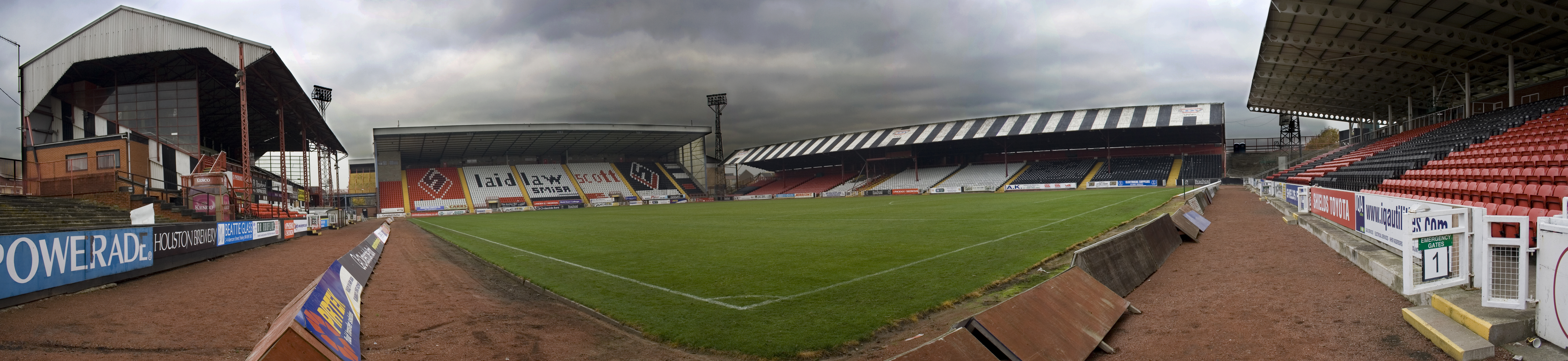 Love Street Stadium, Paisley, Scotland. Panorama taken from the old Family end corner at Love Street.